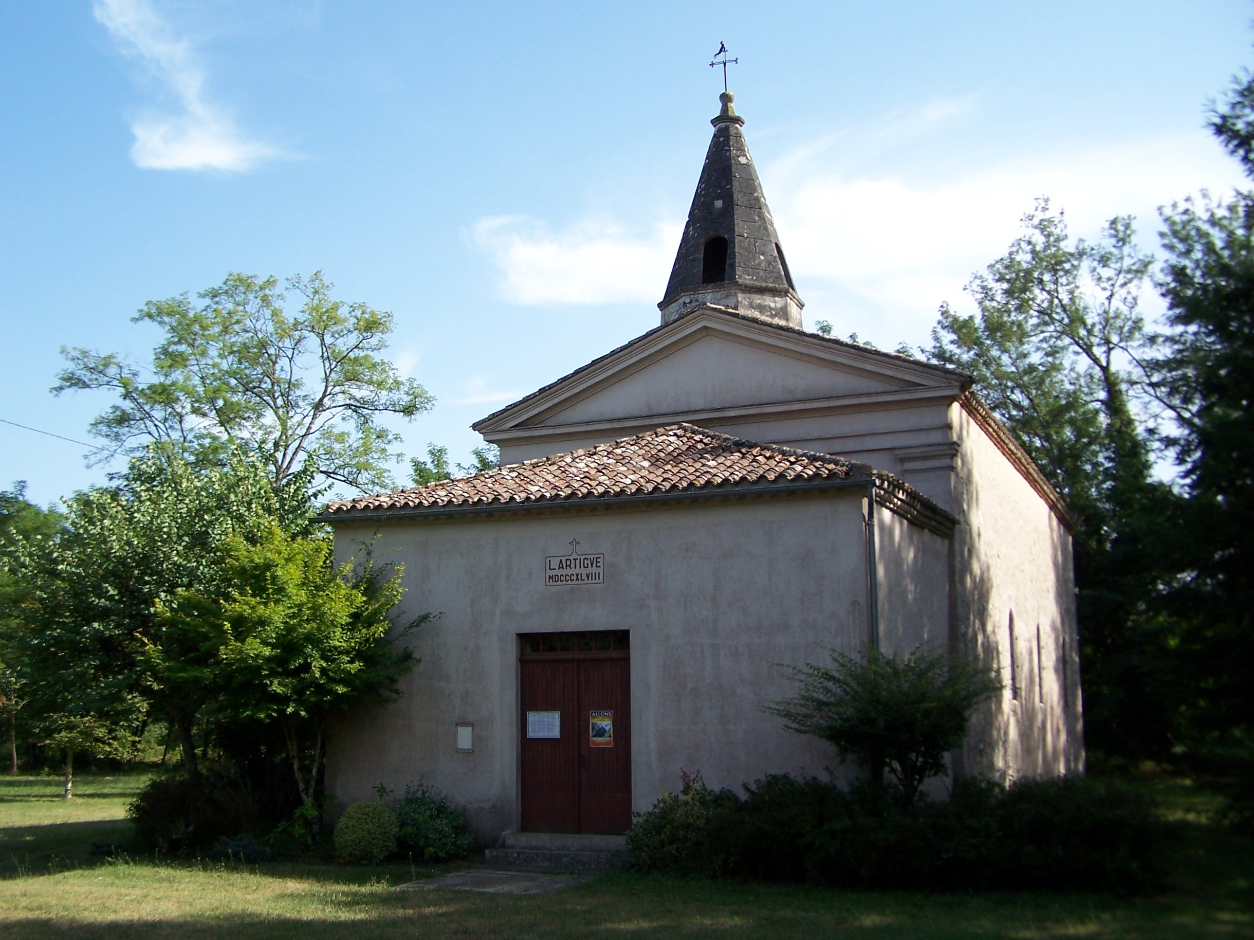 Church Saint-Romain of Lartigue (Gironde, France)